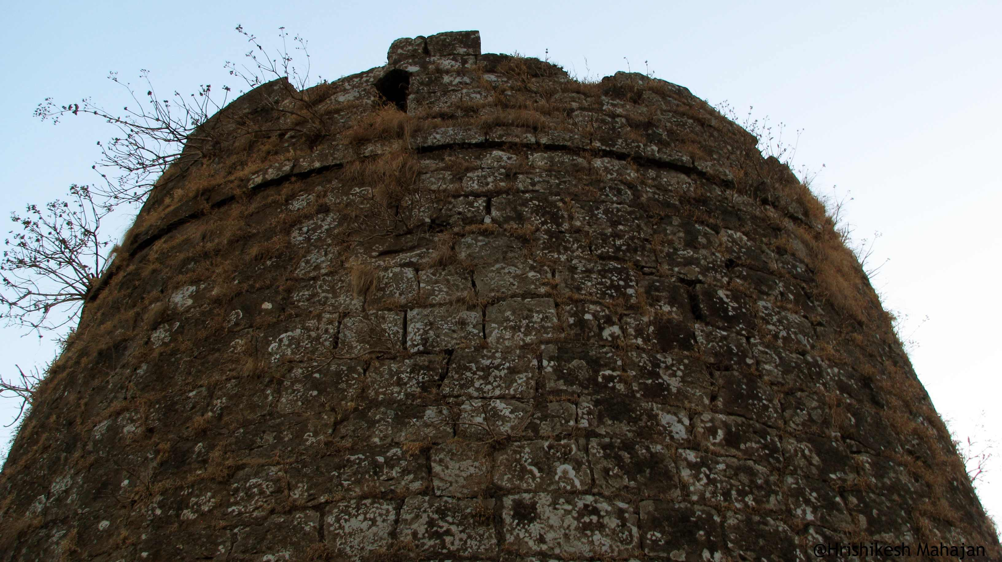 Watchtower of Gawilgad fort, Maharashtra, India